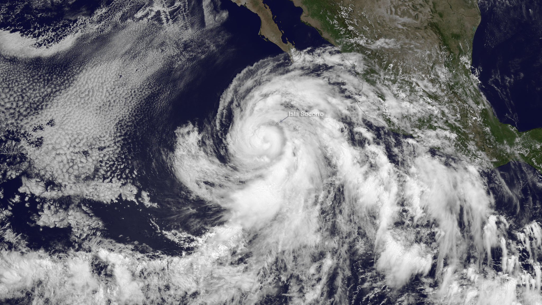 A snapshot of the Northeast Pacifc Hurricane Basin showing hurricane Cosme reaching peak strength.